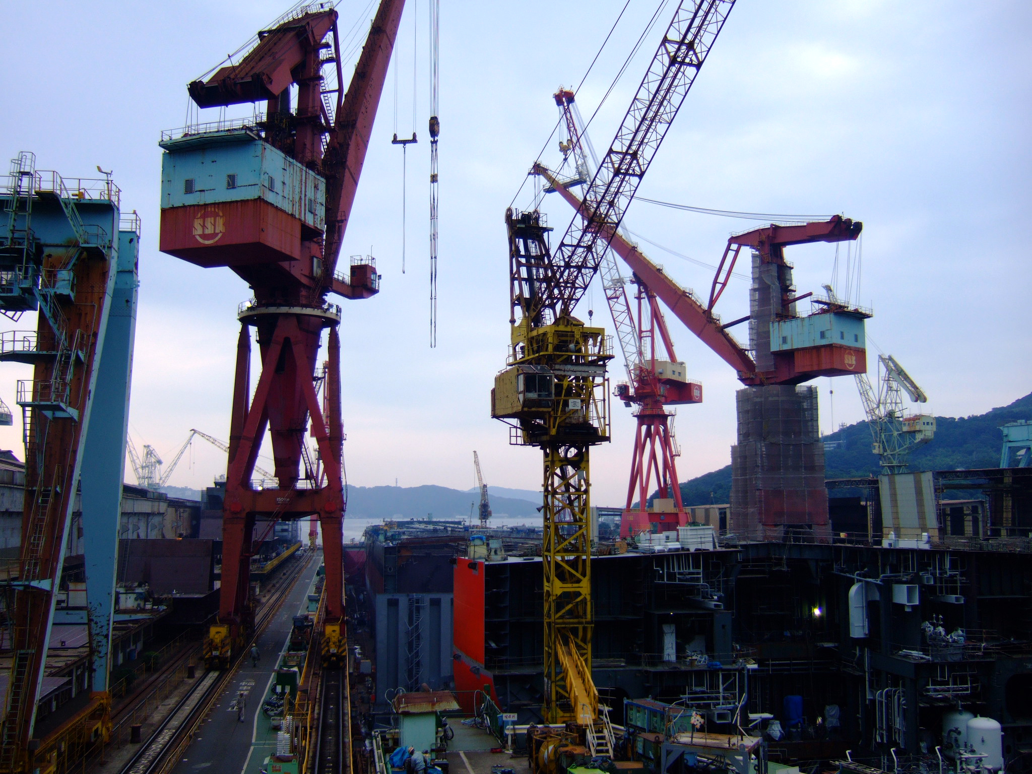 Sasebo Shipyard of Sasebo Heavy Industries Co., Ltd..